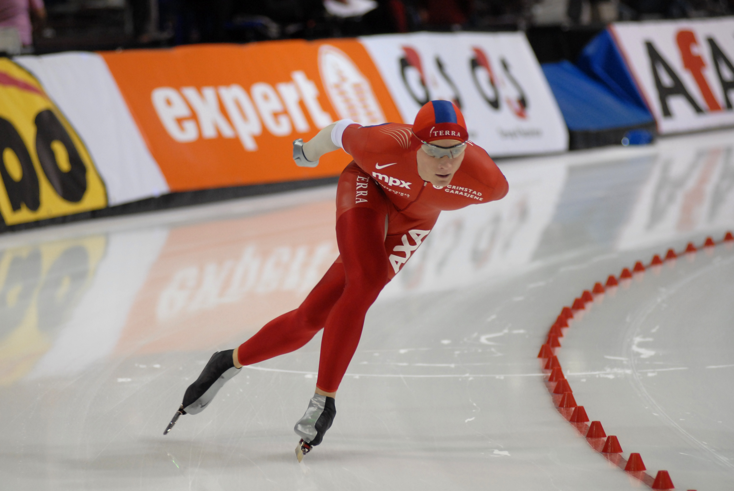 Håvard Bøkko,speedskater from Norway